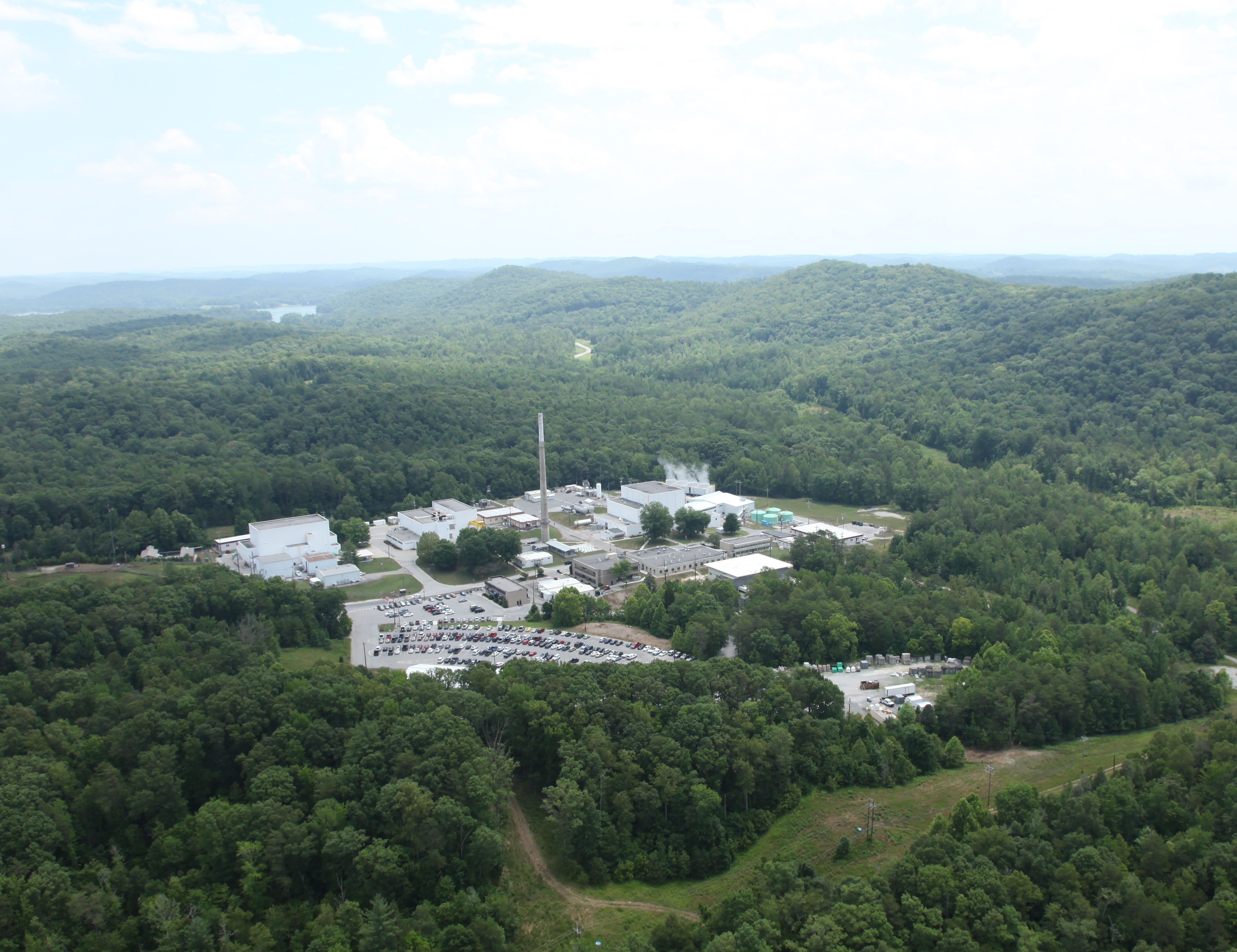 Image of the High Flux Isotope Reactor Complex